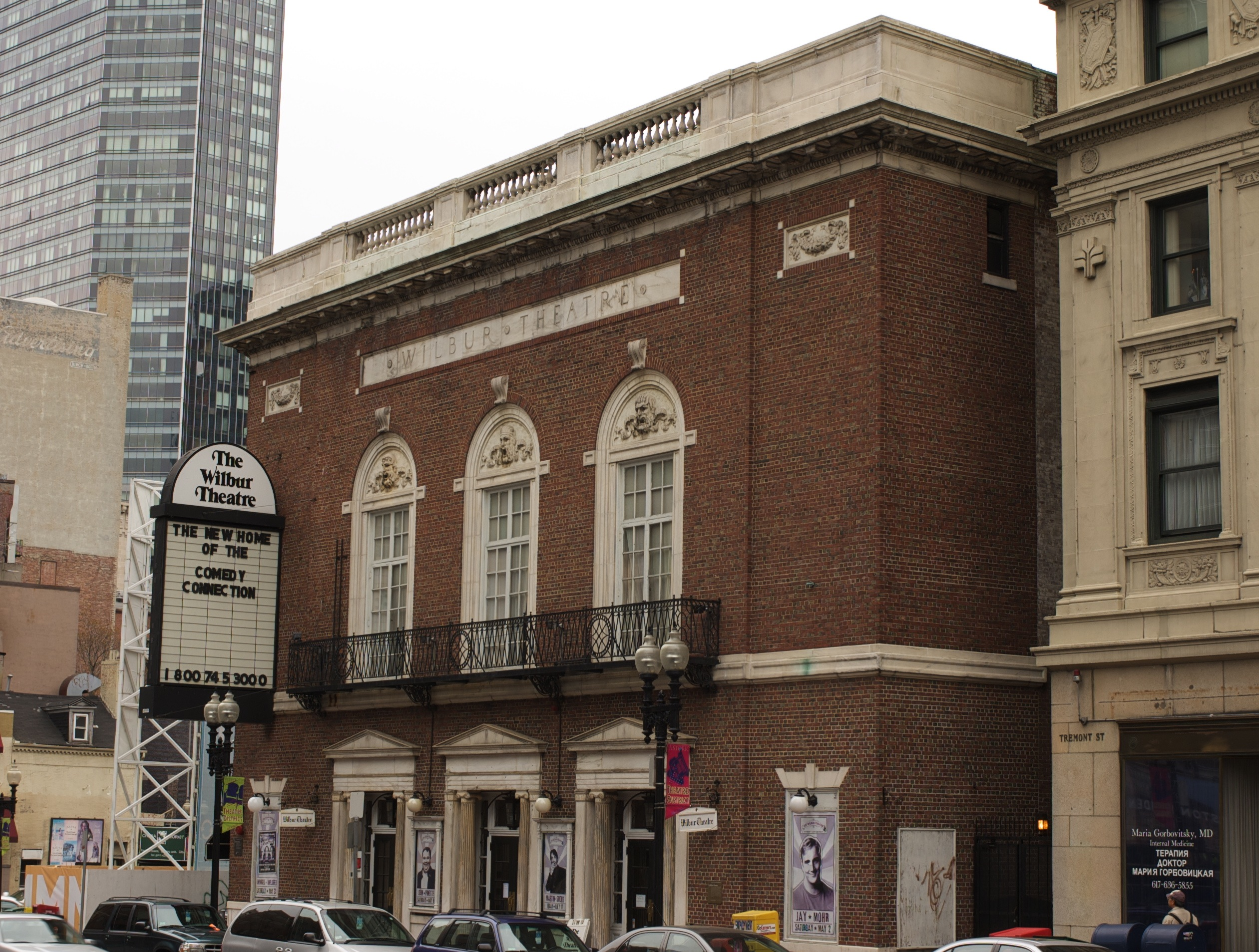 The exterior of the historic Wilbur Theatre on Tremont Street in Boston, Massachusetts.